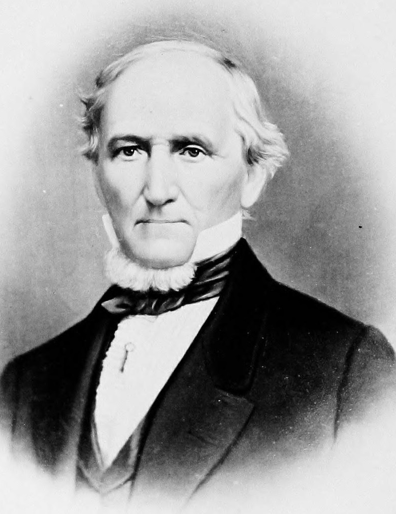 John Magee, Congressman from New York